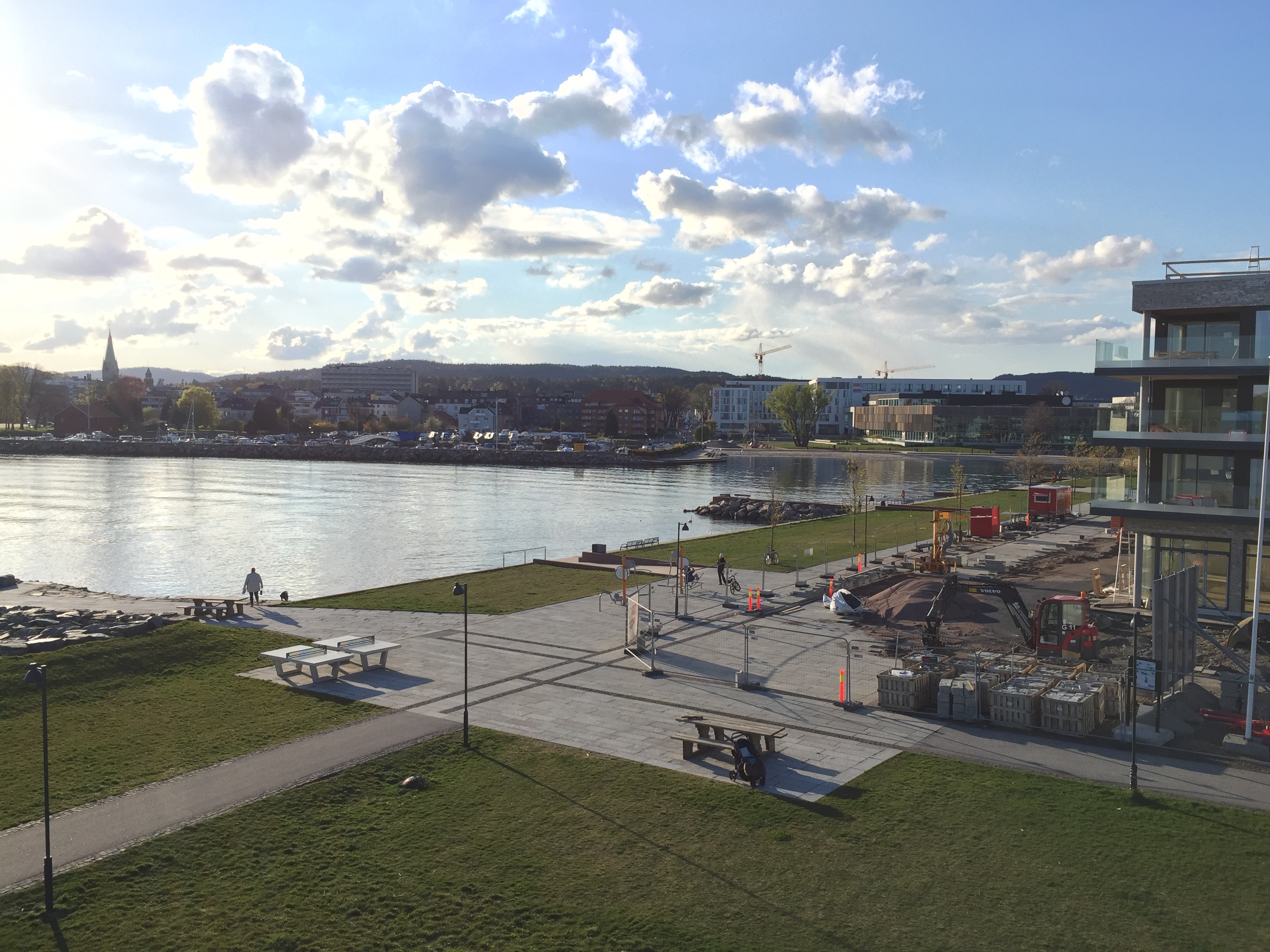 Ytre Tangen, Kristiansand